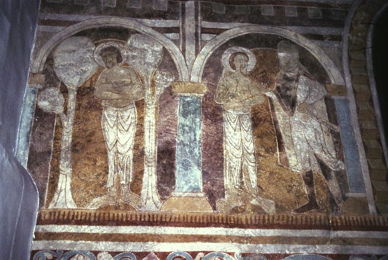 Give Kirke (church)